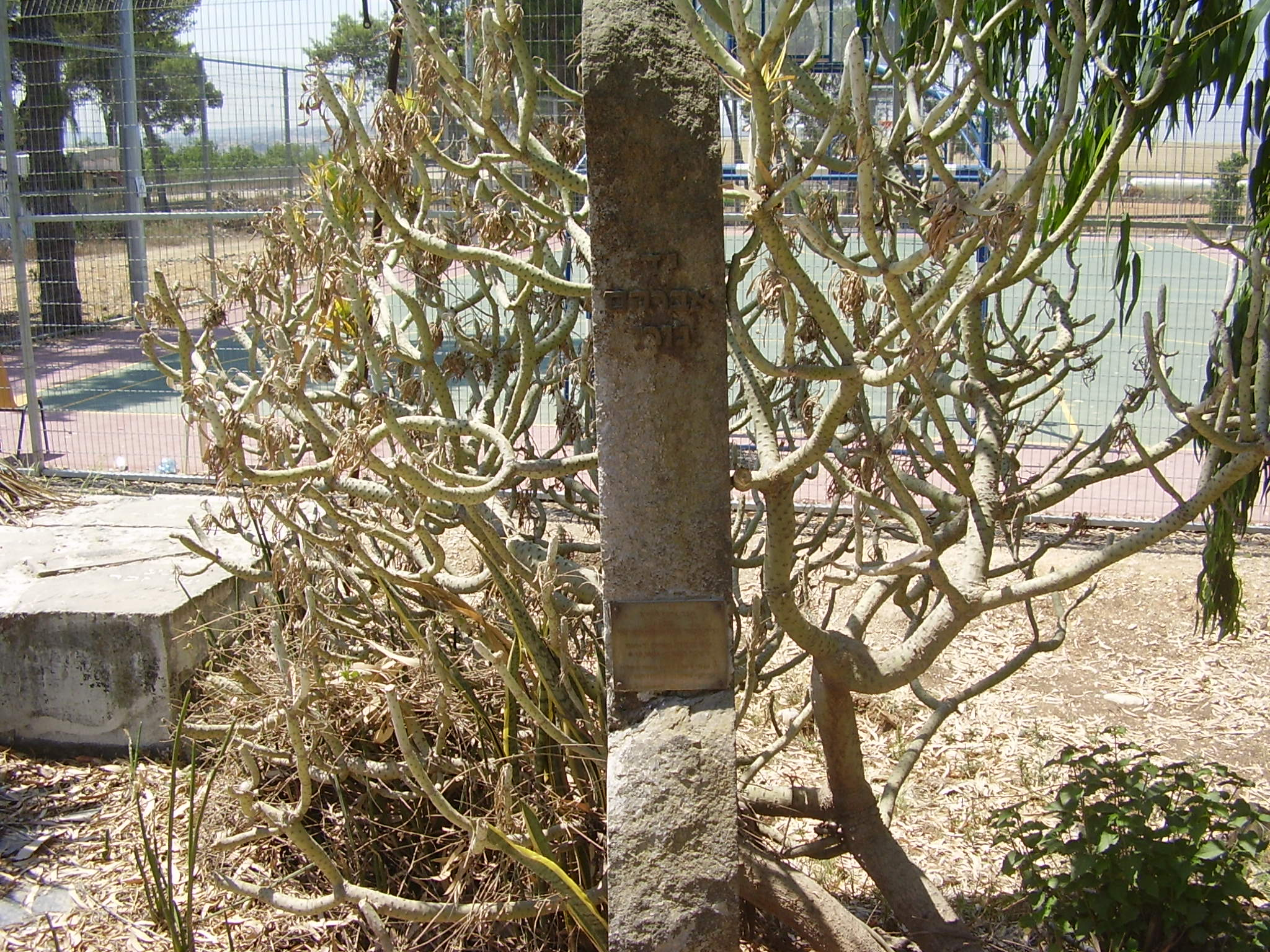 Abraham Juri memorial in Kibbutz Yad Hanna